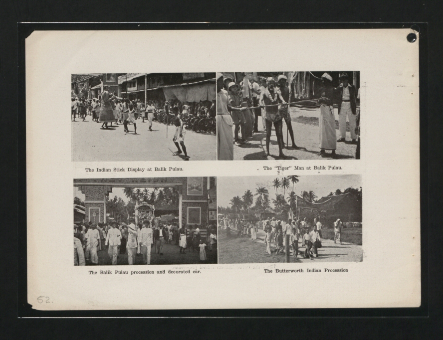 Description: The Indian Stick Display at Balik Pulau. Location: Penang, Malaya Date: Taken in 1937 Description: The "Tiger" Man at Balik Pulau. Location: Penang, Malaya Date: Taken in 1937 Description: The Balik Pulau procession and decorated car. Location: Penang, Malaya Date: Taken in 1937 Description: The Butterworth Indian Procession. Location: Penang, Malaya Date: Taken in 1937 Our Catalogue Reference: Part of CO 1069/502. This image is part of the Colonial Office photographic collection held at The National Archives. Feel free to share it within the spirit of the Commons. Please use the comments section below the pictures to share any information you have about the people, places or events shown. We have attempted to provide place information for the images automatically but our software may not have found the correct location. For high quality reproductions of any item from our collection please contact our image library